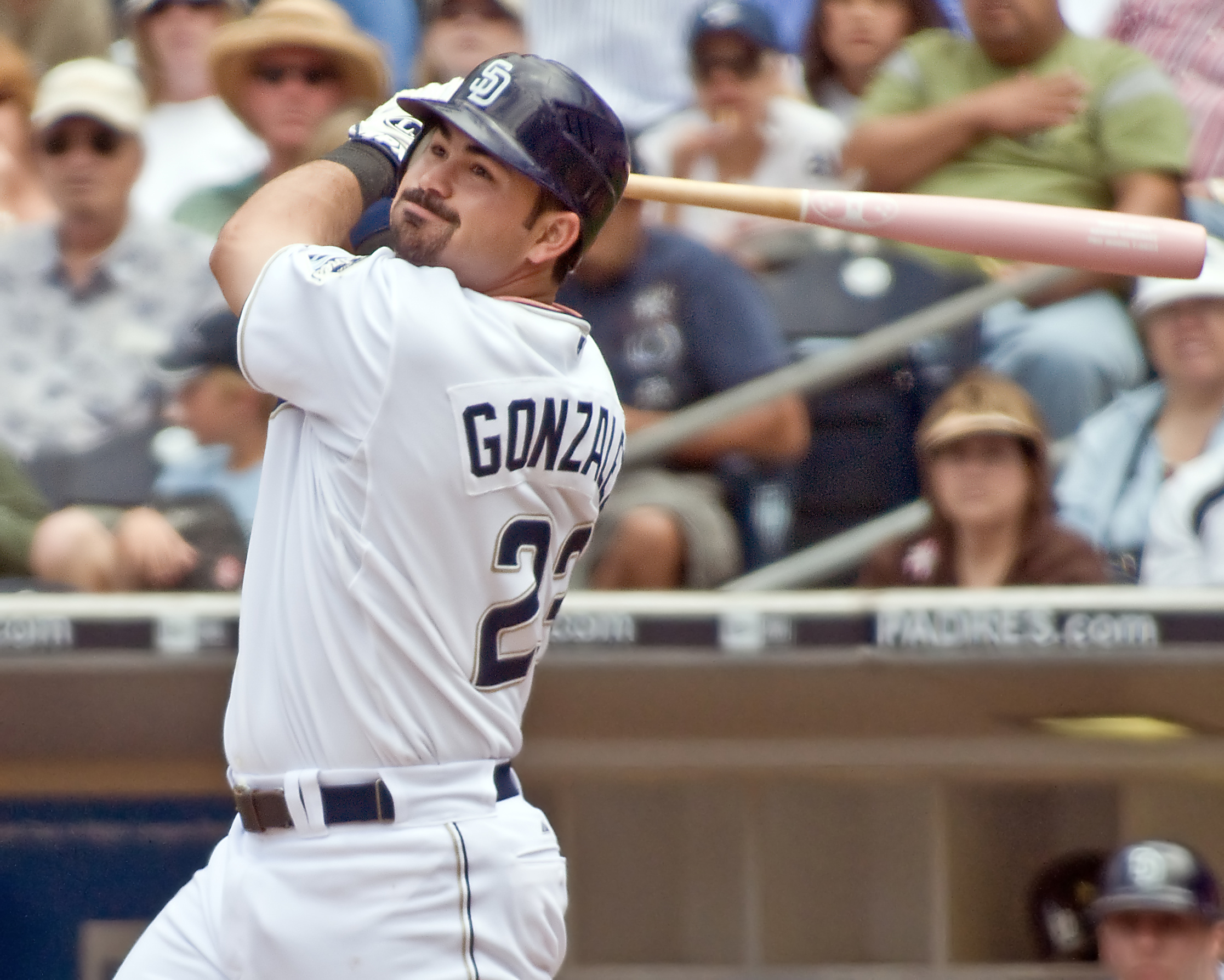 Adrian Gonzalez San Diego Padres first baseman swings at a pitch in a game on 5/11/2008 vs the Colorado Rockies at Petco Park